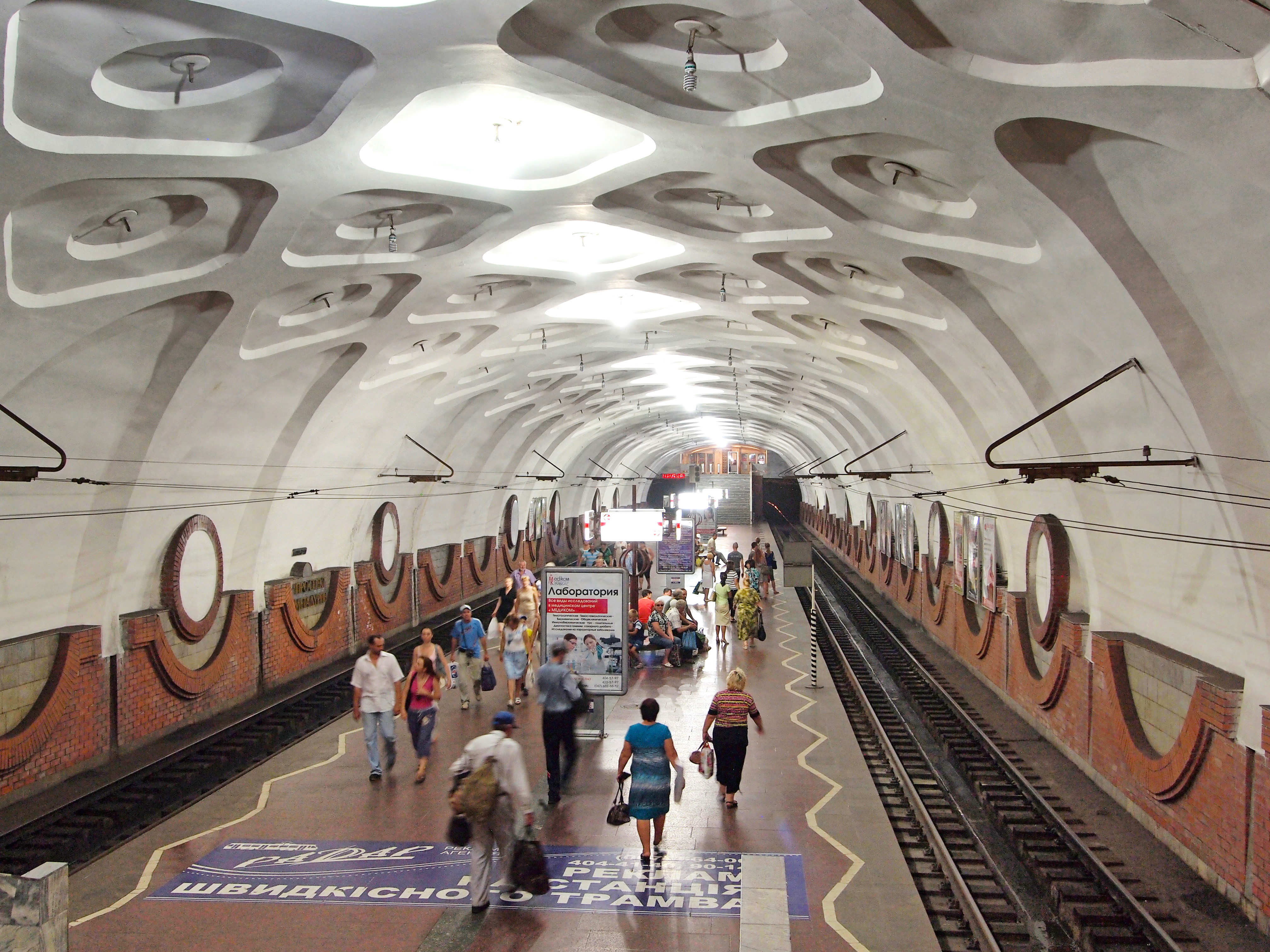 Prospekt Metalurhiv metro station in Kryvyi Rih. This photograph was taken with an Olympus E-PL1